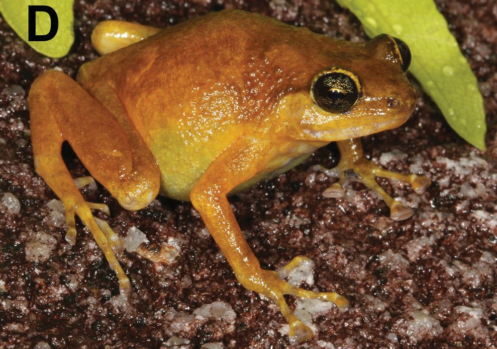 Cophixalus saxatilis female